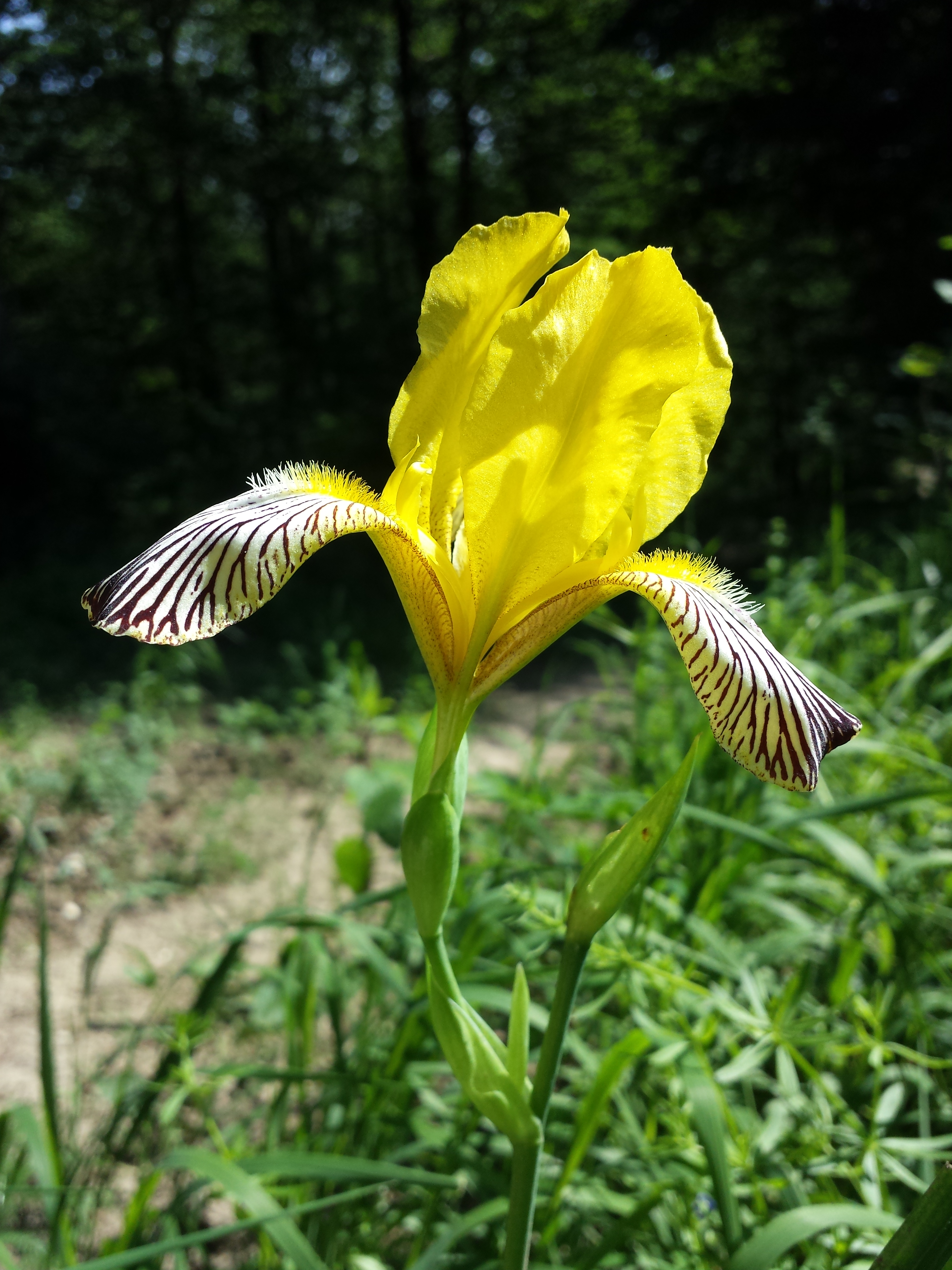 Flower Taxonym: Iris variegata ss Fischer et al. EfÖLS 2008 ISBN 978-3-85474-187-9 Location: Glasweiner Wald between Bergau and Füllersdorf, district Korneuburg, Lower Austria - ca. 310 m a.s.l. Habitat: xerotherme wood